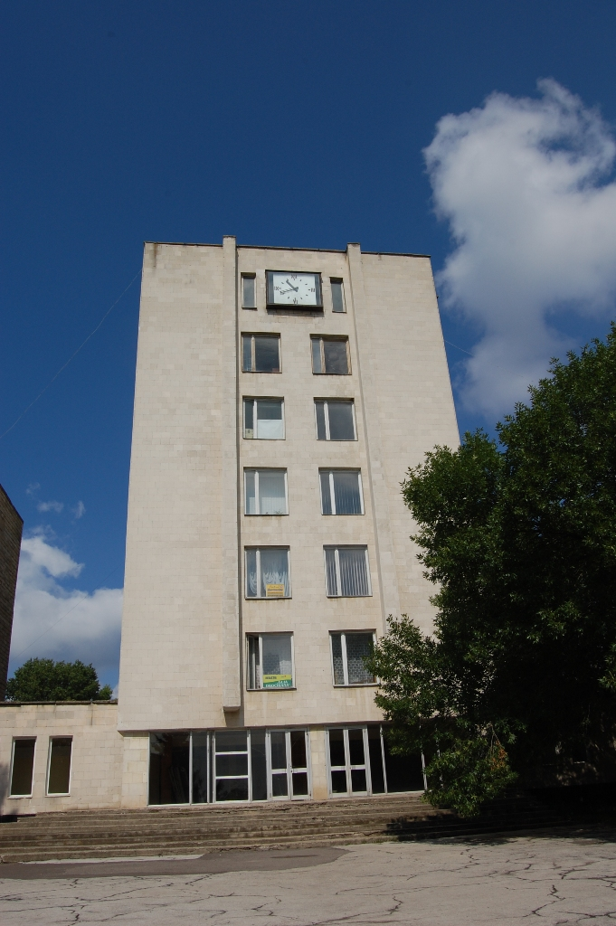 Cladire cu oficii in Orasul Drochia